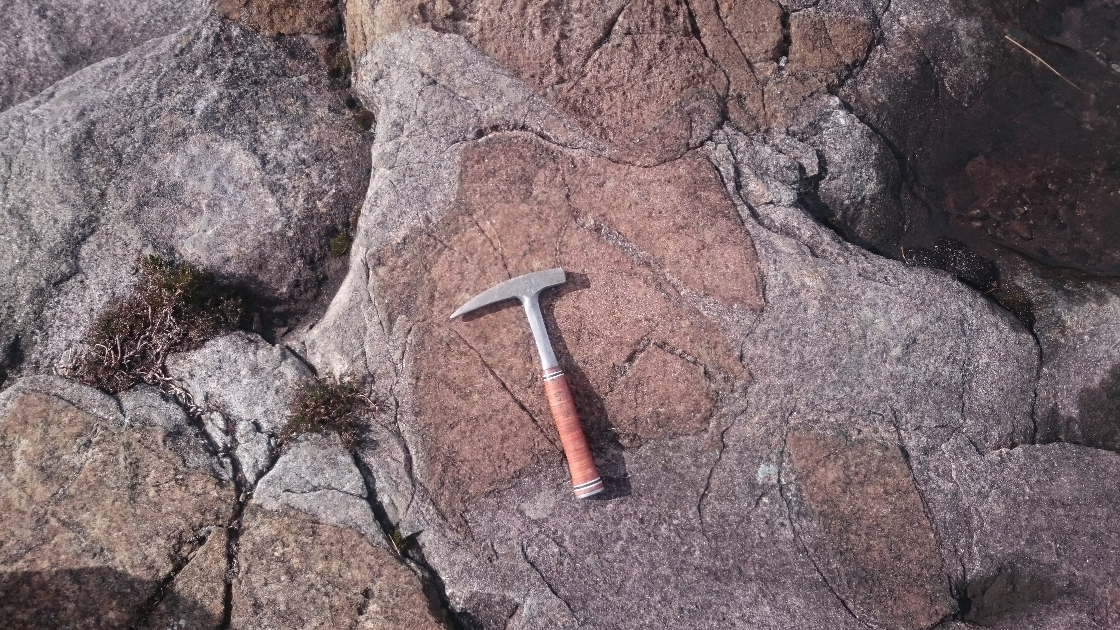 Pegmatite (Pink) formed when water entered a pluton, creating a differential in material density. Estwing hammer for scale.